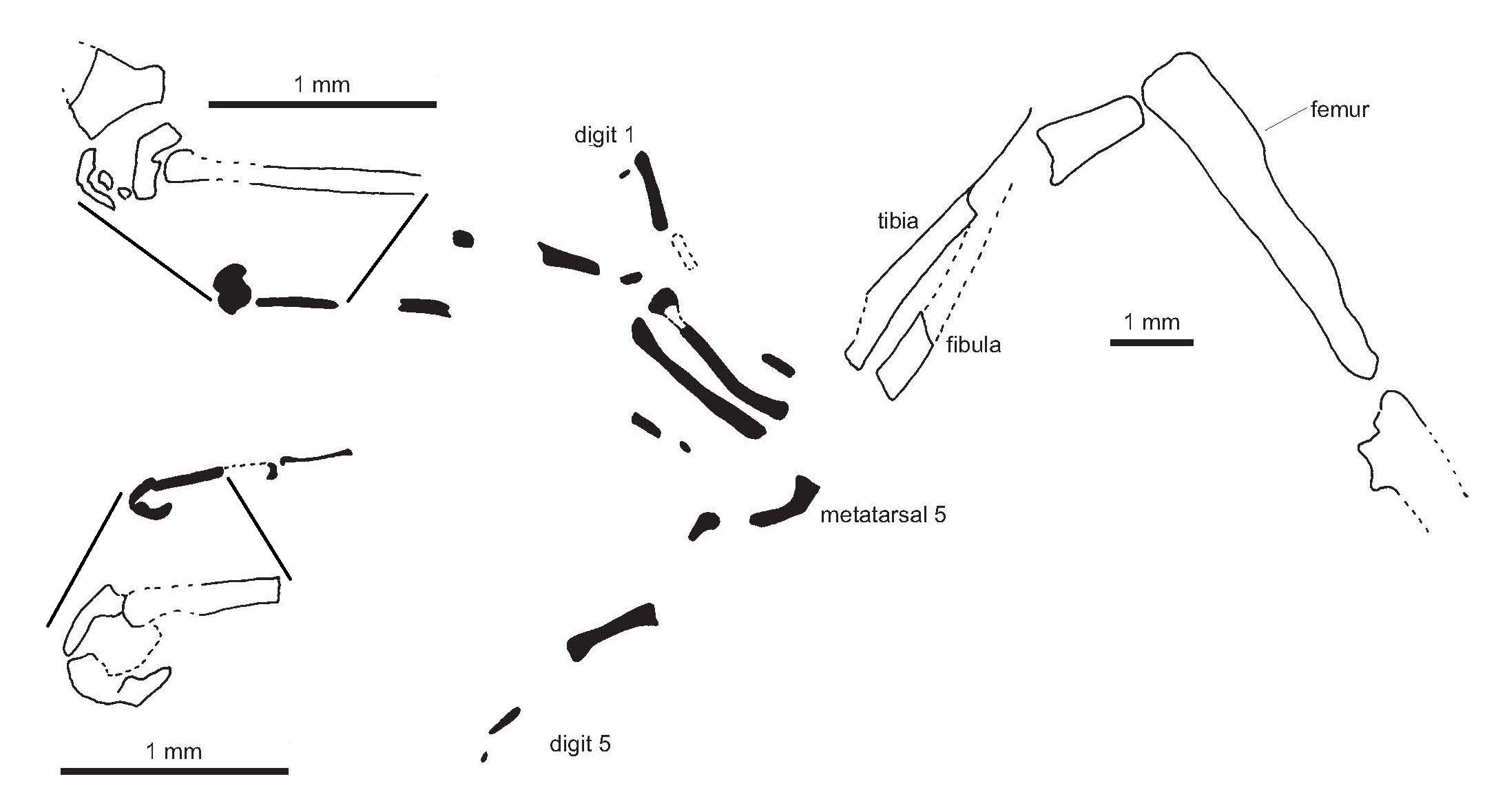 Eichstaettisaurus gouldi sp. nov., holotype MNP 19457. Right pes, with enlargements of fourth, and third digits to show how breakage creates the impression of a spatulate tip.